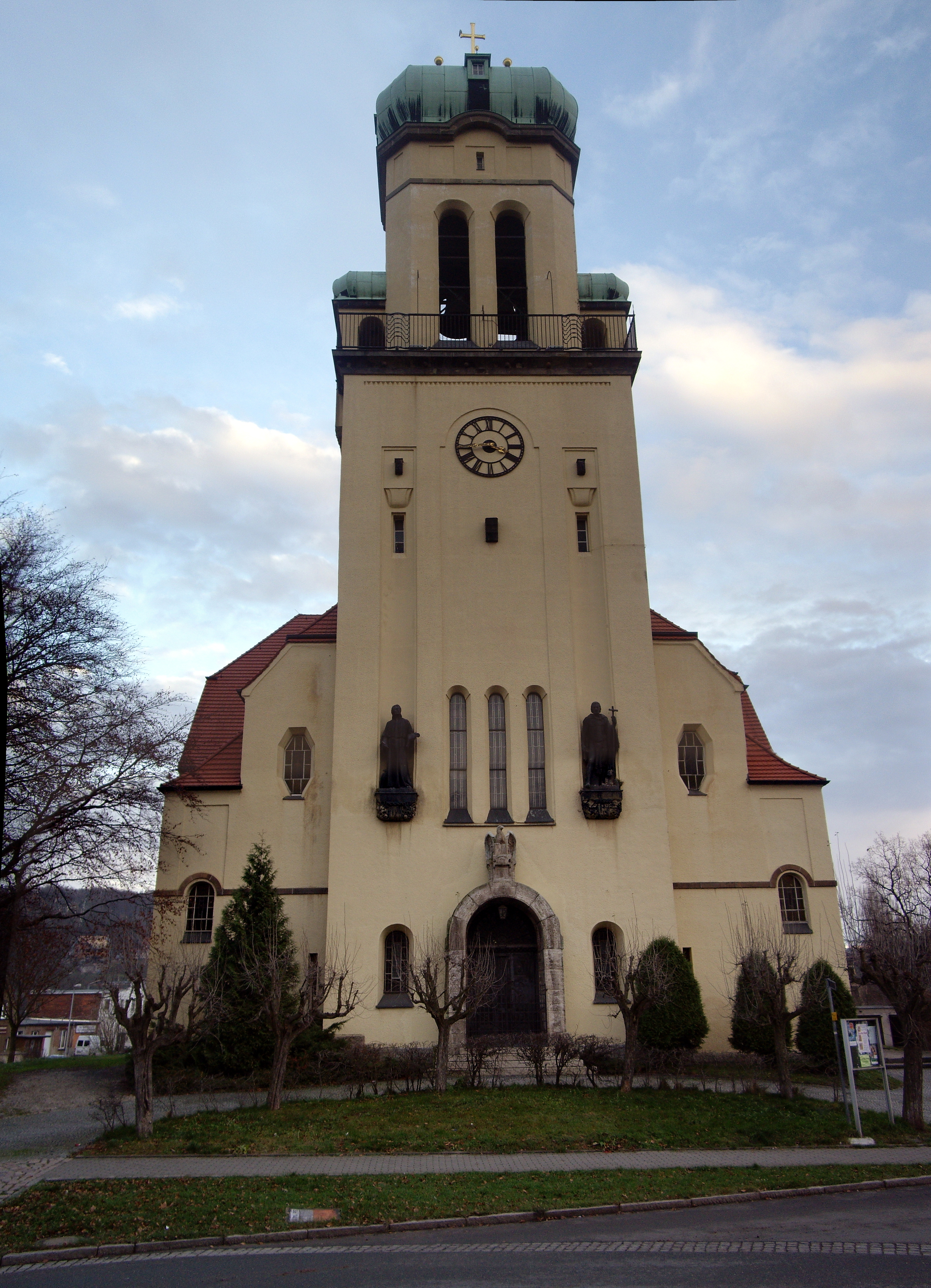 The St.-Johannis-Church at Crimmitschau, Saxony, Germany